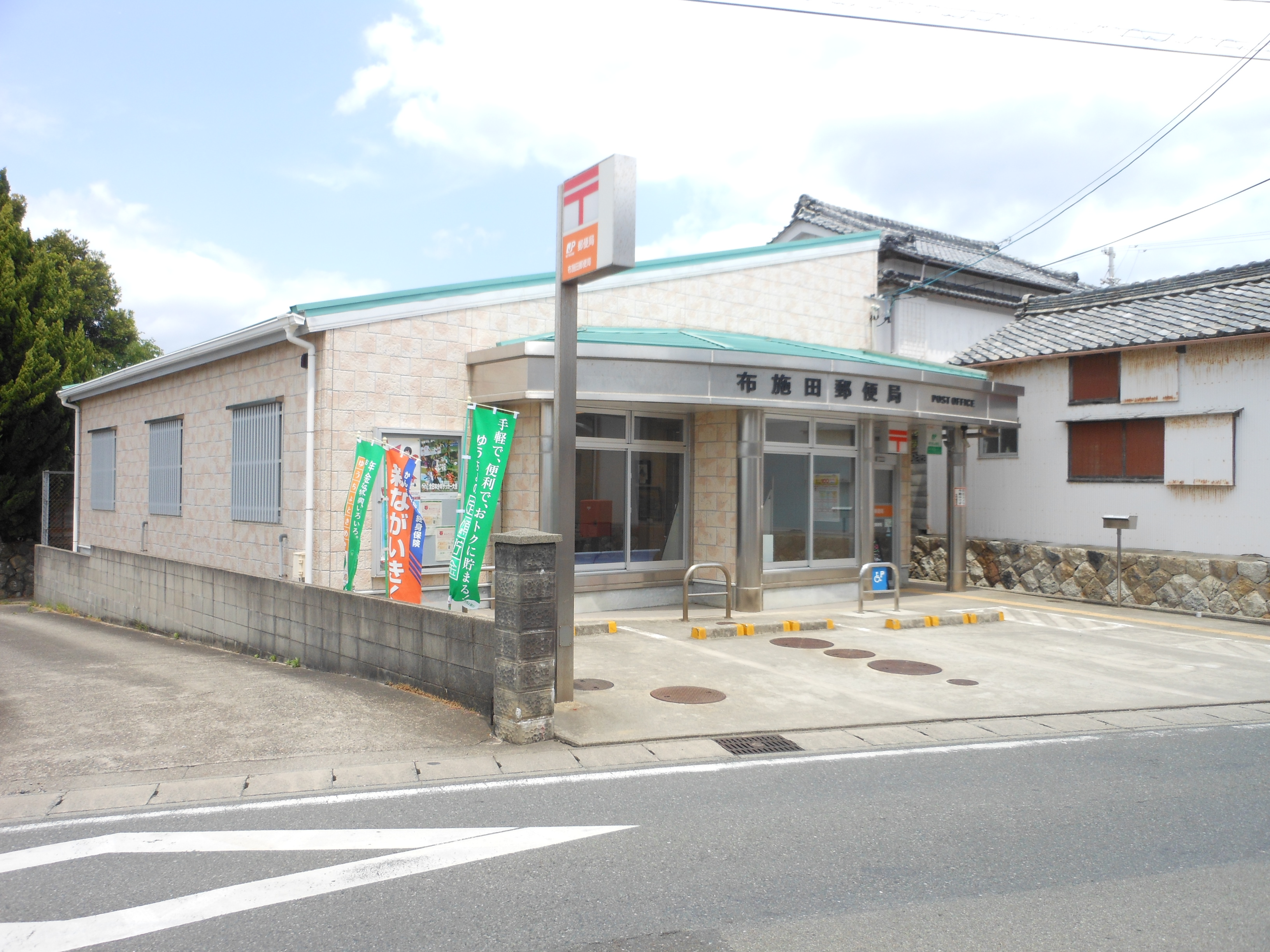 This is the Fuseda post office, which is in Shimacho-Fuseda, Shima, Mie, Japan.